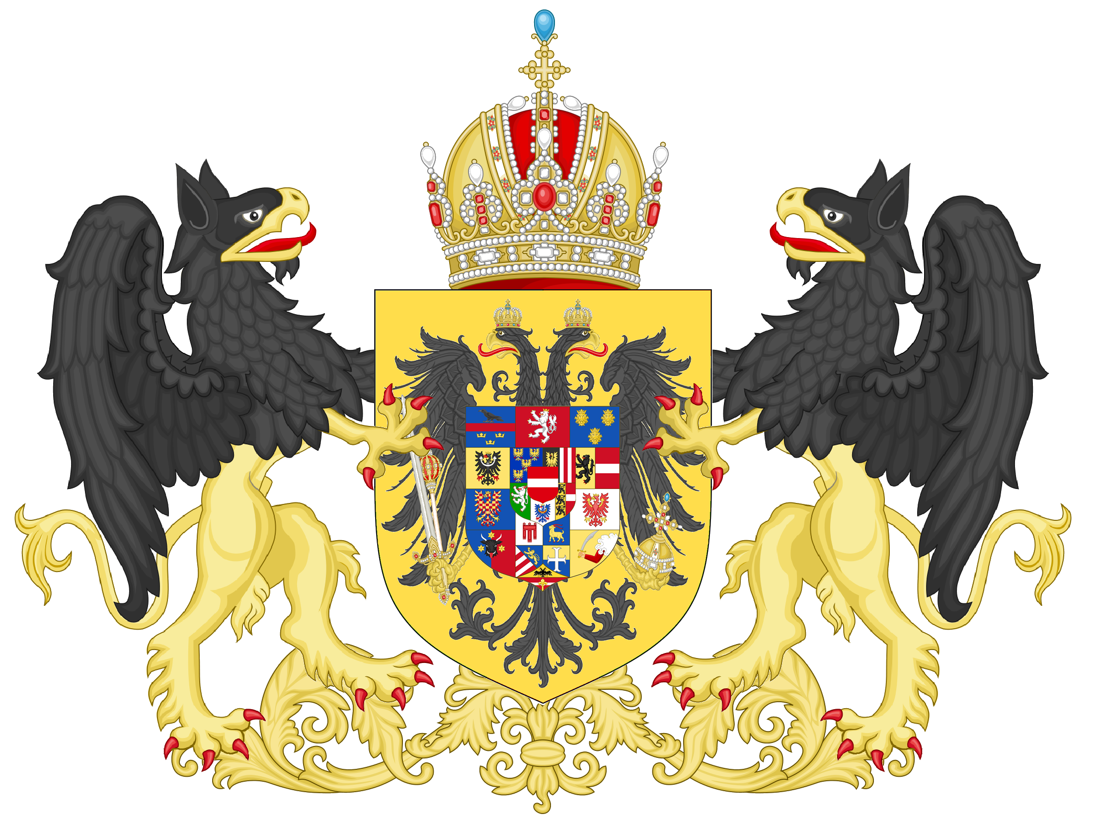 Middle Coats of arms of Austrian Countries, designed in 1915.